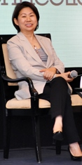 Teresita Sy-Coson - Filipino Billionaire